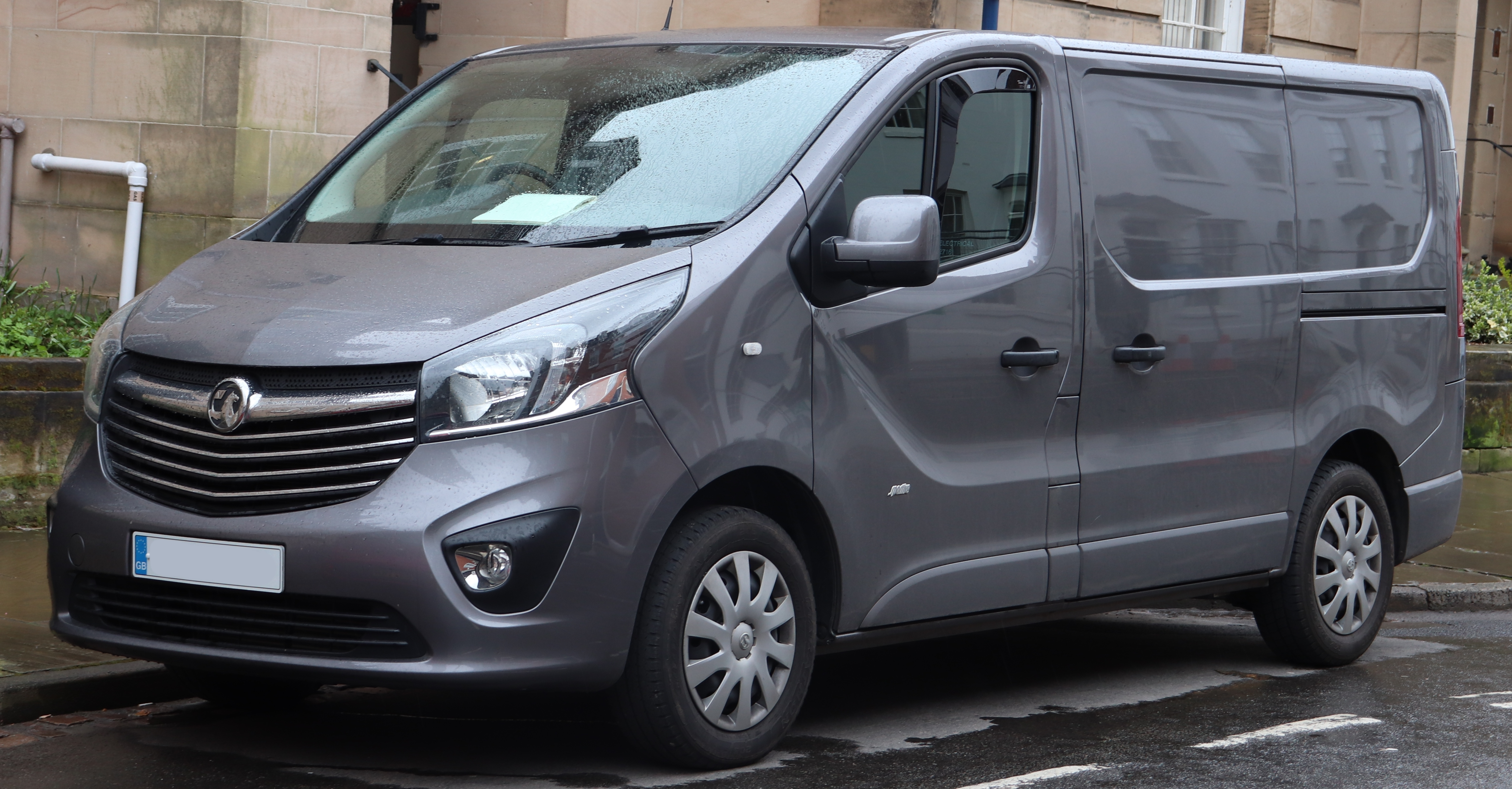 2016 Vauxhall Vivaro 2700 Sportive CDTi 1.6 Taken in Warwick